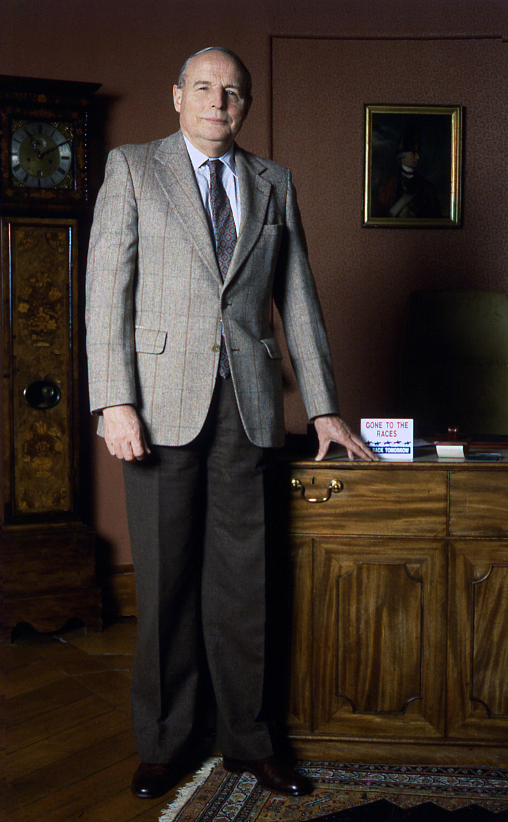 Charles Henry Gordon-Lennox, 10th Duke of Richmond, 10th Duke of Lennox and 5th Duke of Gordon in his study at Goodwood